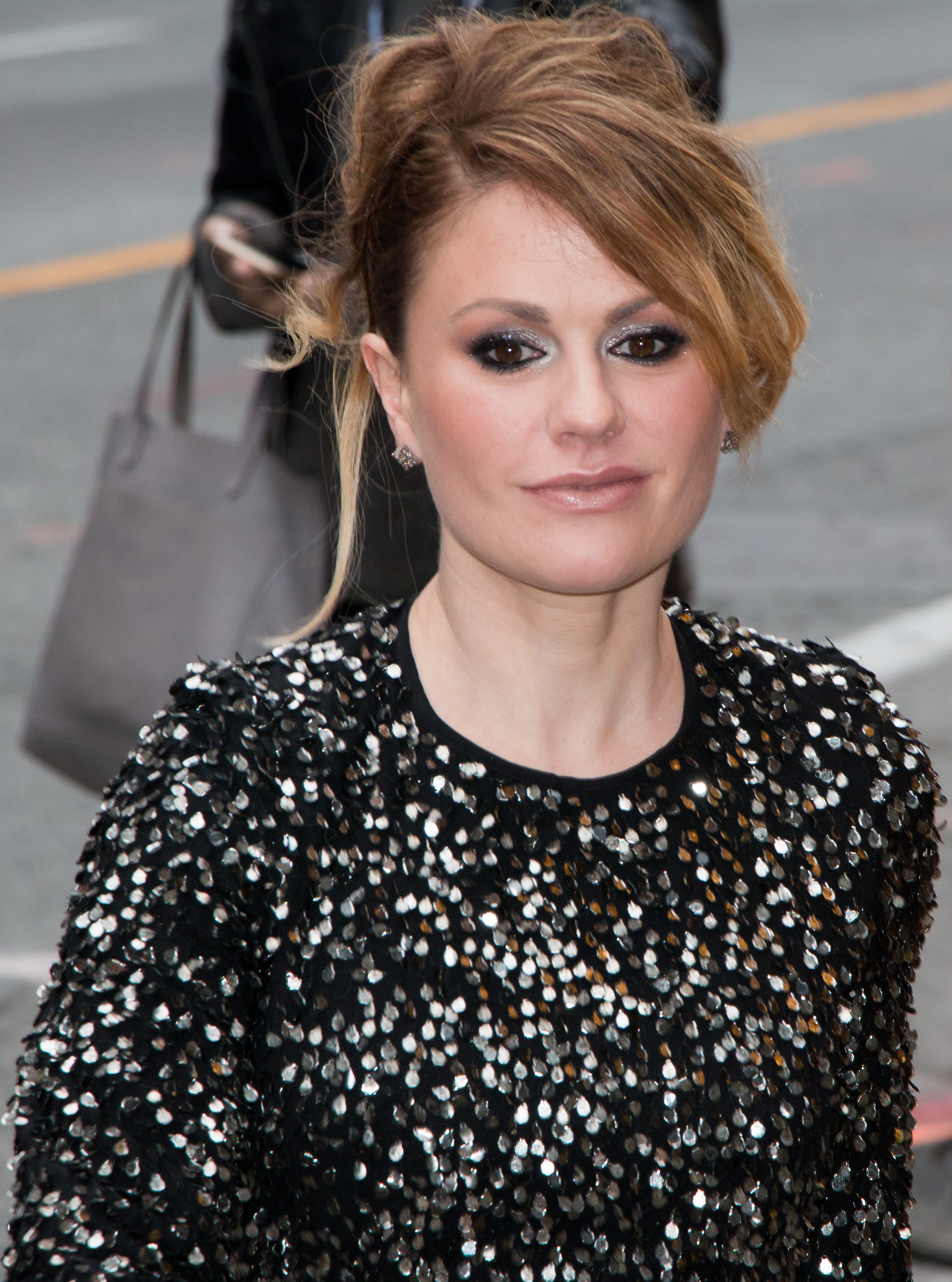 Anna Paquin at the 2018 Toronto International Film Festival.